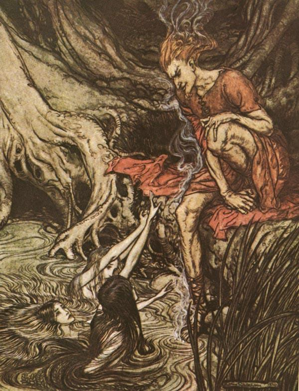 Loge talks to the Rhinemaidens.